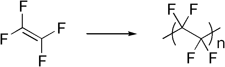 diagram showing the polymerization of tetrafluoroethylene